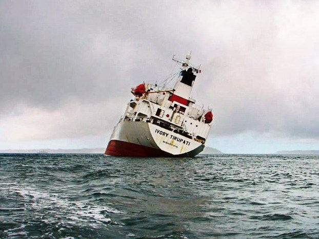 The reefer ship Ivory Tirupati arriving in Brest with heavy list.